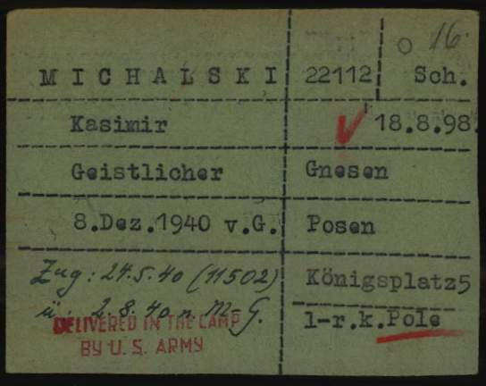 Registration card of Kazimierz Michalski as a prisoner at Dachau Nazi Concentration Camp. Red stamp means he was liberated from Dachau by the U. S. Army.